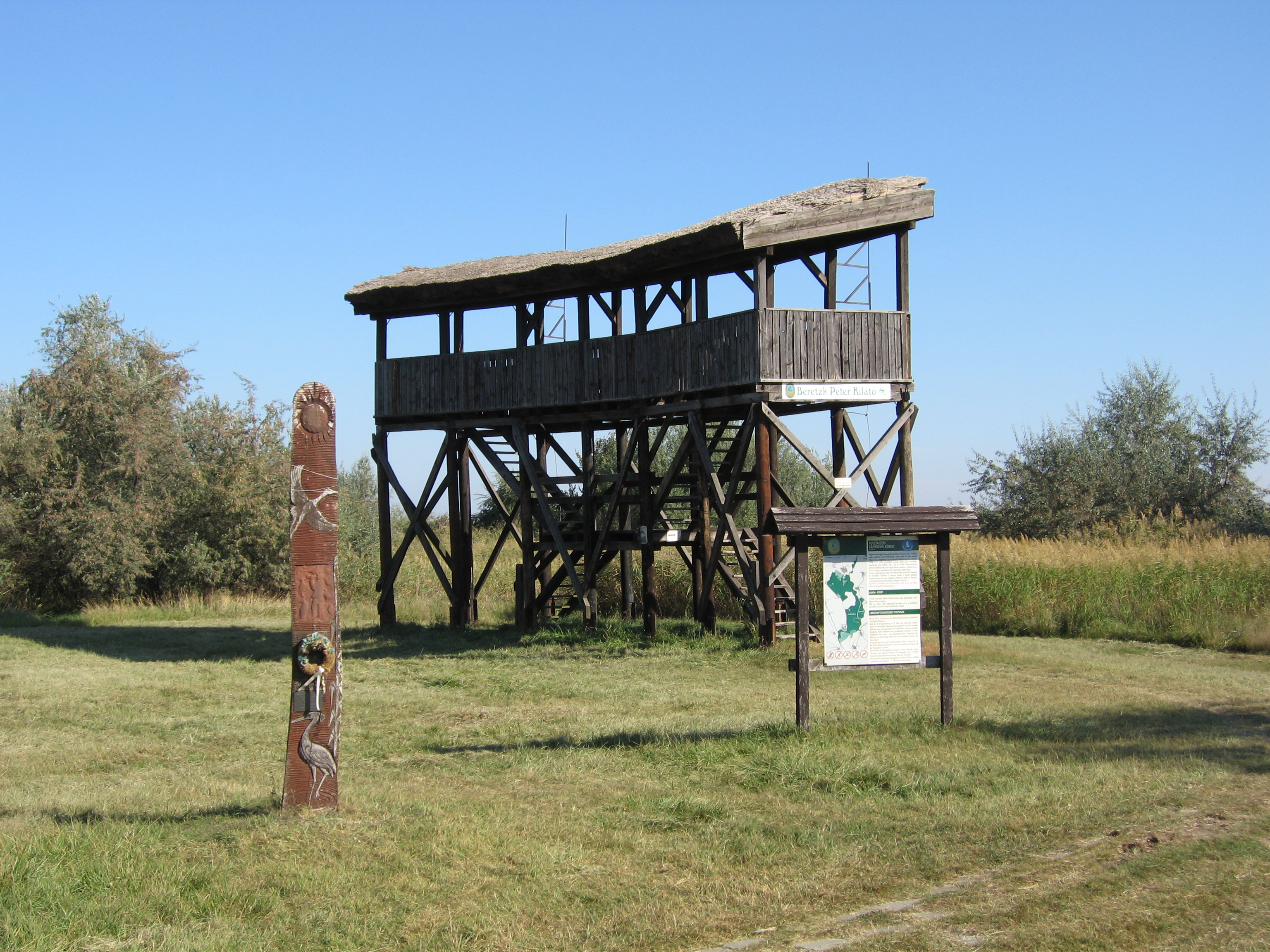 Szeged, Fehér-lake